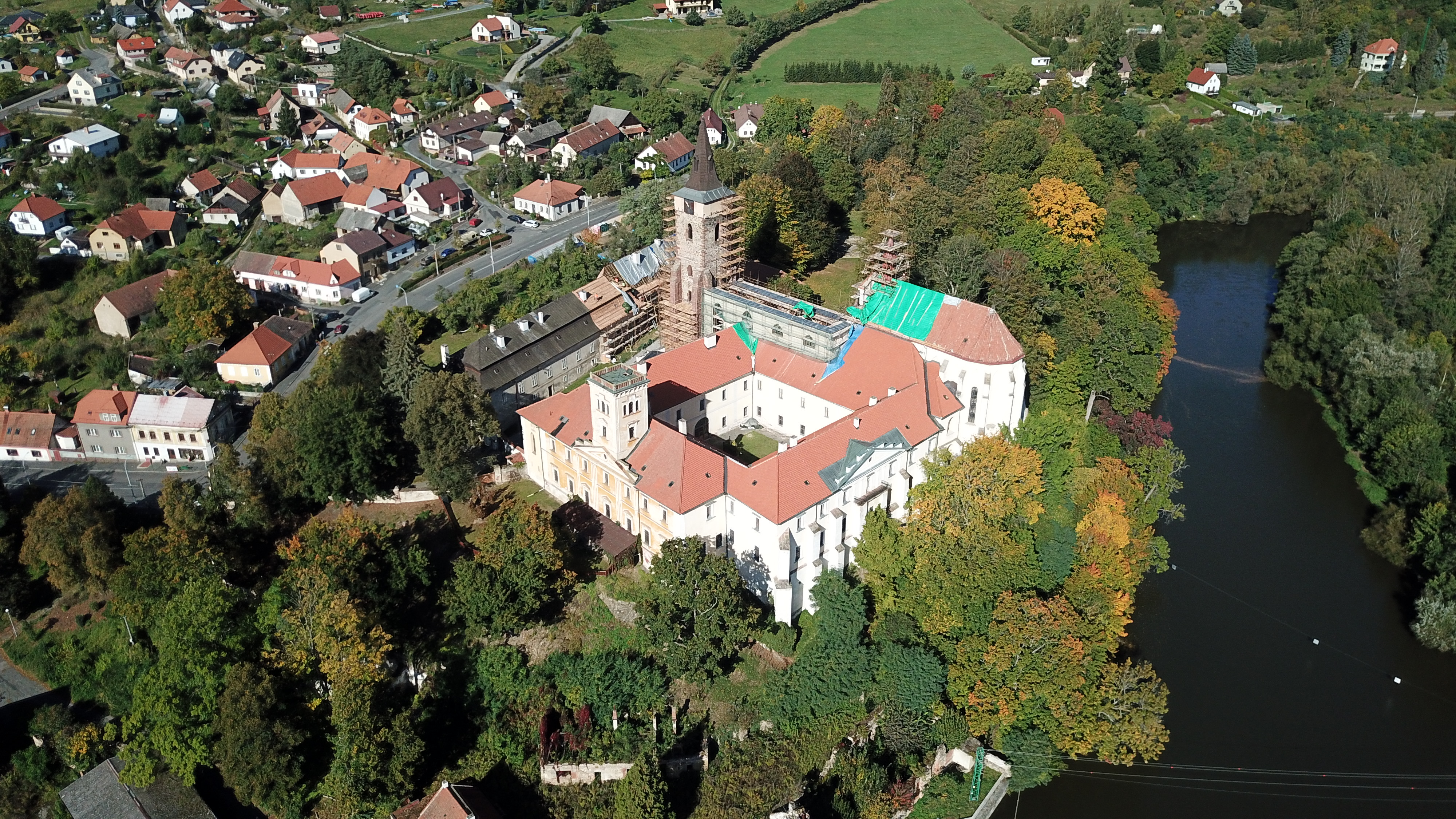 Aerial view of Sázava Monastery (Sázava, Benešov District, Czechia)